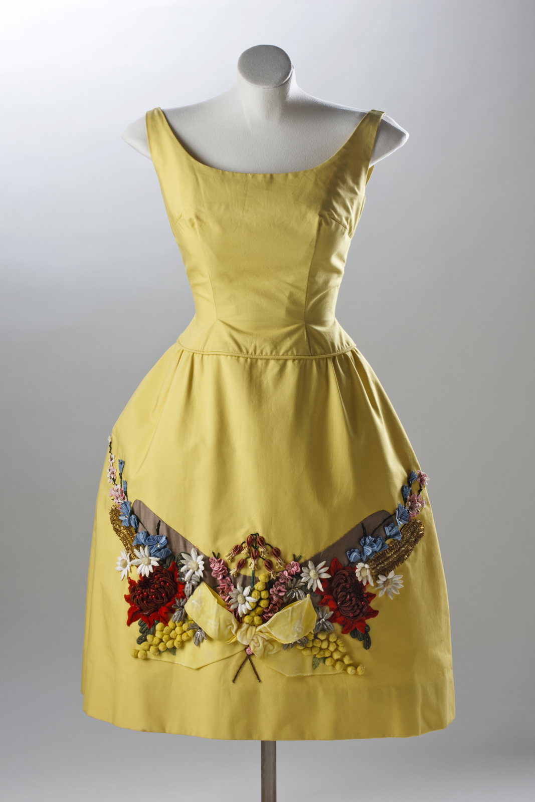 Knee length, golden yellow poplin dress with sleeveless bodice and an A-line, slightly gathered skirt. On the front lower section of the skirt there is a heavy relief applique of material and beads featuring a richly textured and coloured design of Australian flora including wattle, waratah, banksia, and flannel flowers. The dress was worn by Miss Australia 1961, Tanya Verstak, for the 'national costume' judging at the 1962 International Beauty Congress held in Long Beach, California. In the National Historical Collection of the National Museum of Australia.